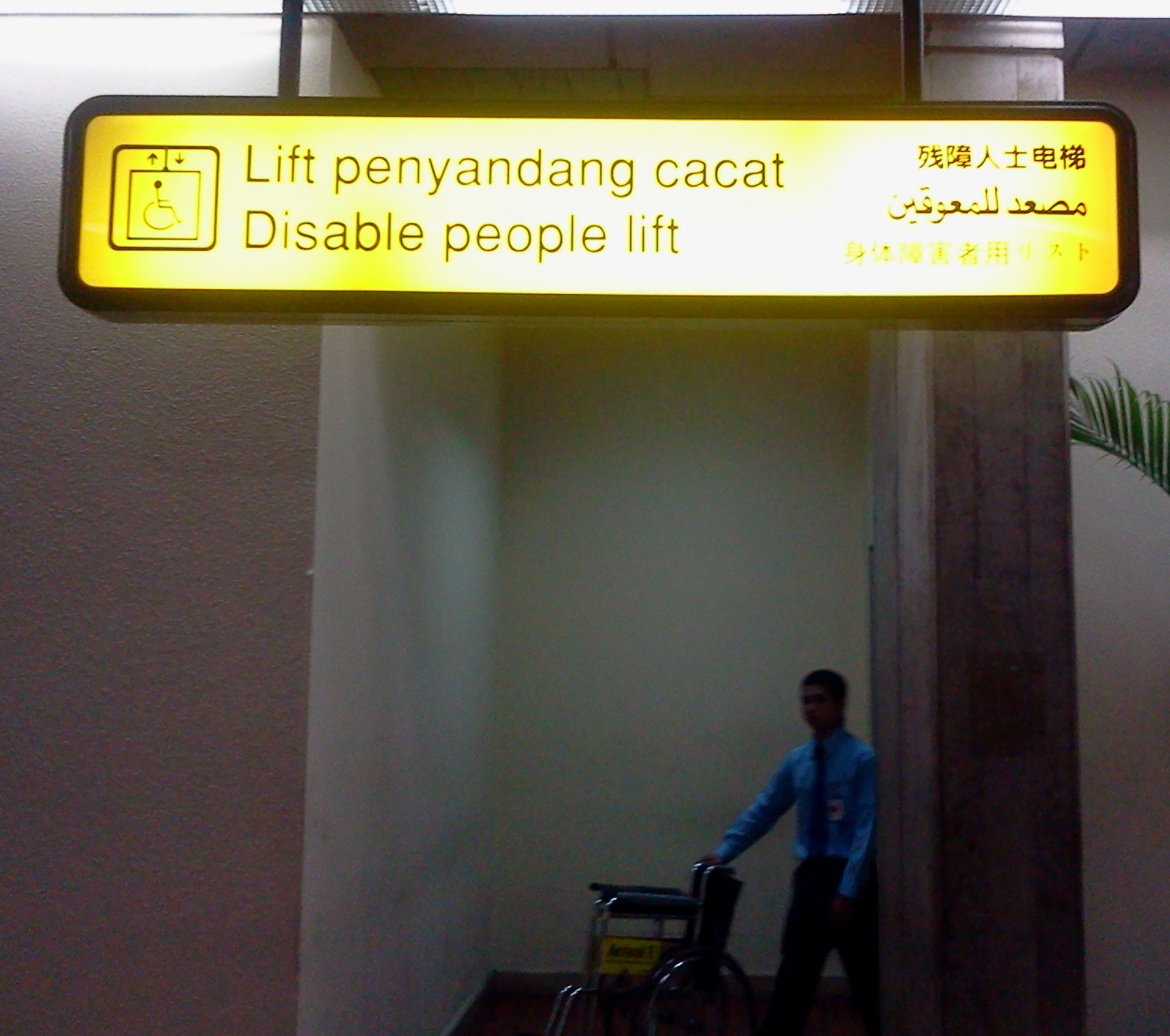 Elevator for disabled passenger in Soekarno Hatta Airport